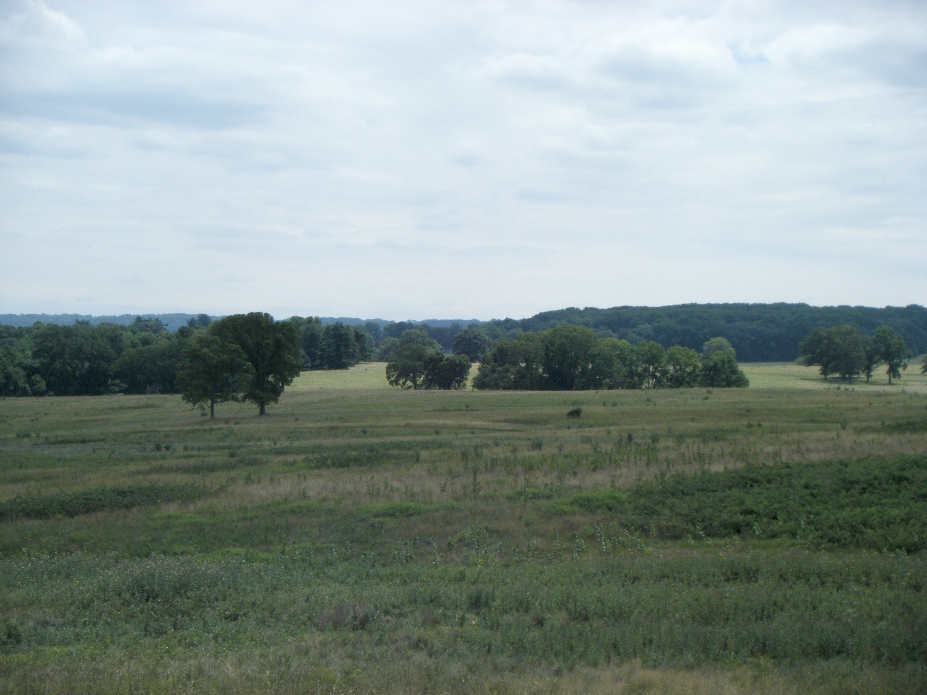 A view of the open land at Valley Forge National Historical Park in Valley Forge, Pennsylvania